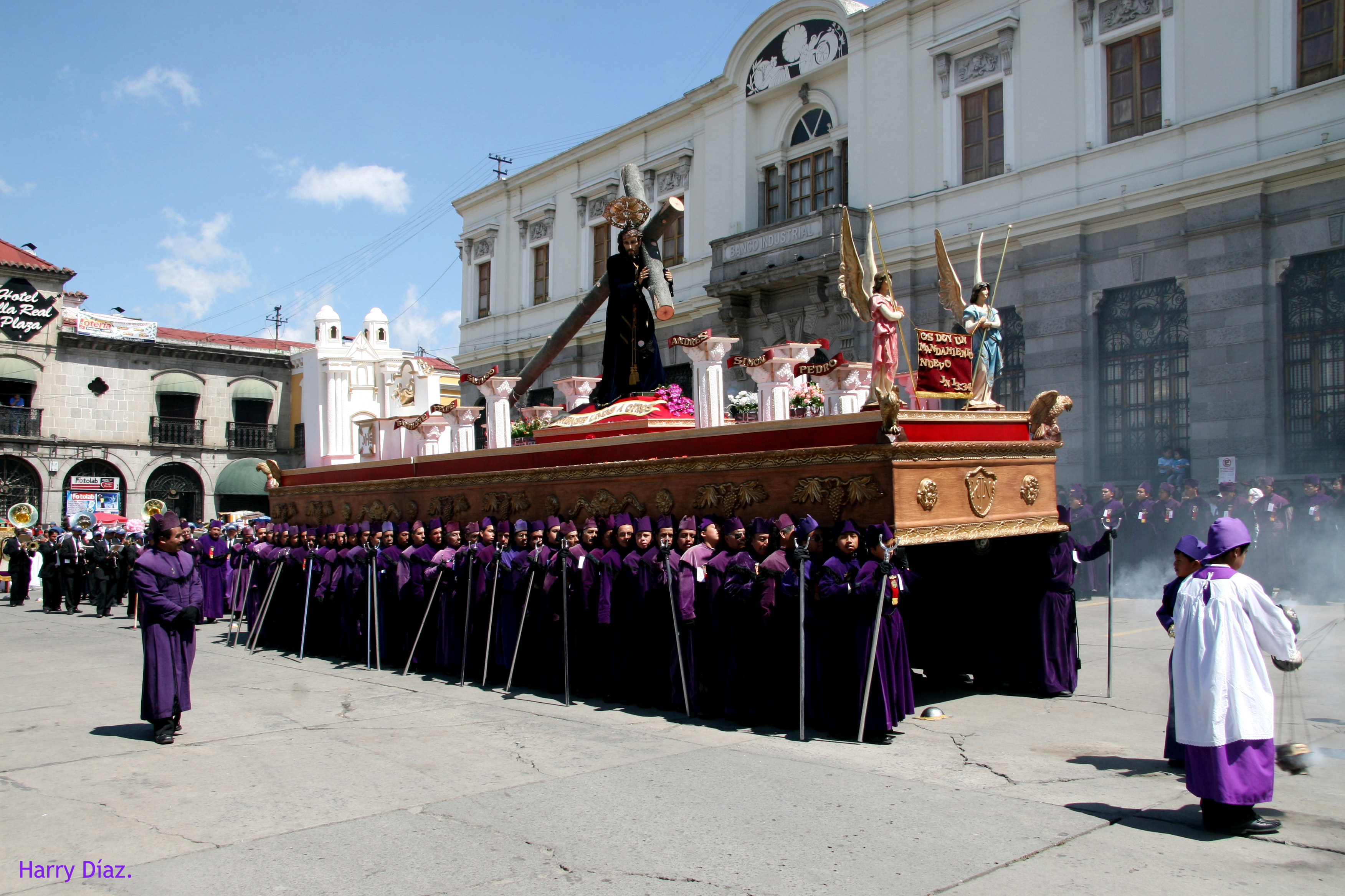 Good Friday in Quetzaltenango, Guatemala, 2007. Procession honoring Jesus of Nazereth. Church of San Juan de Dios.